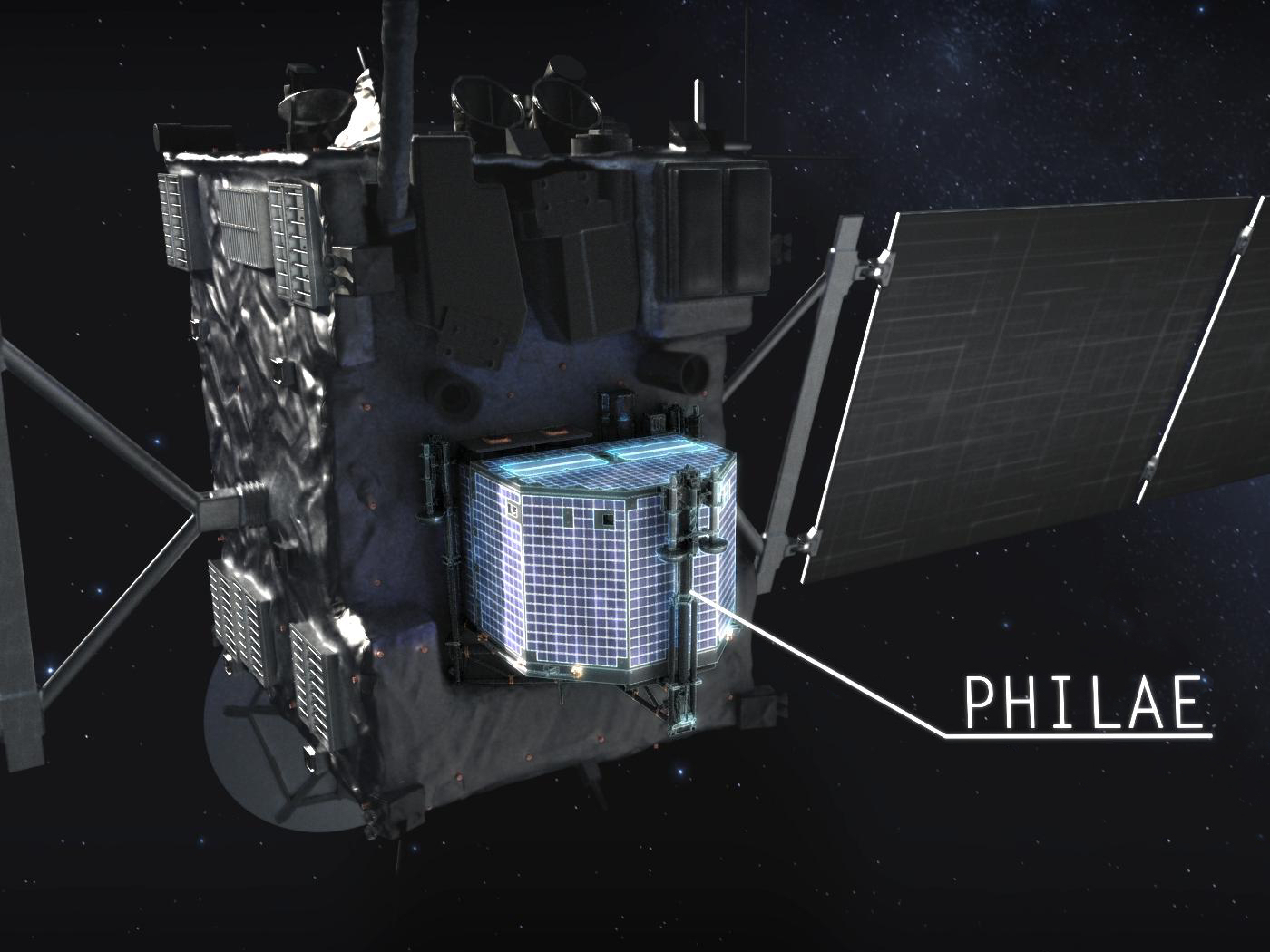 Rosetta with Philae lander, before separation. Frame from the movie "Chasing A Comet – The Rosetta Mission".